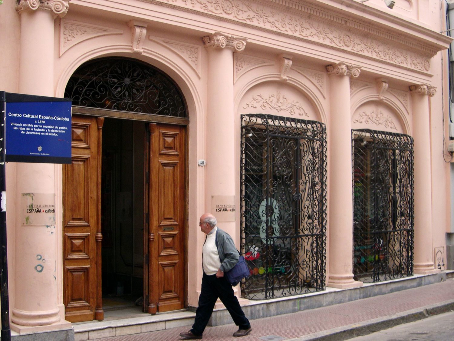 Fachada Centro Cultural España Córdoba